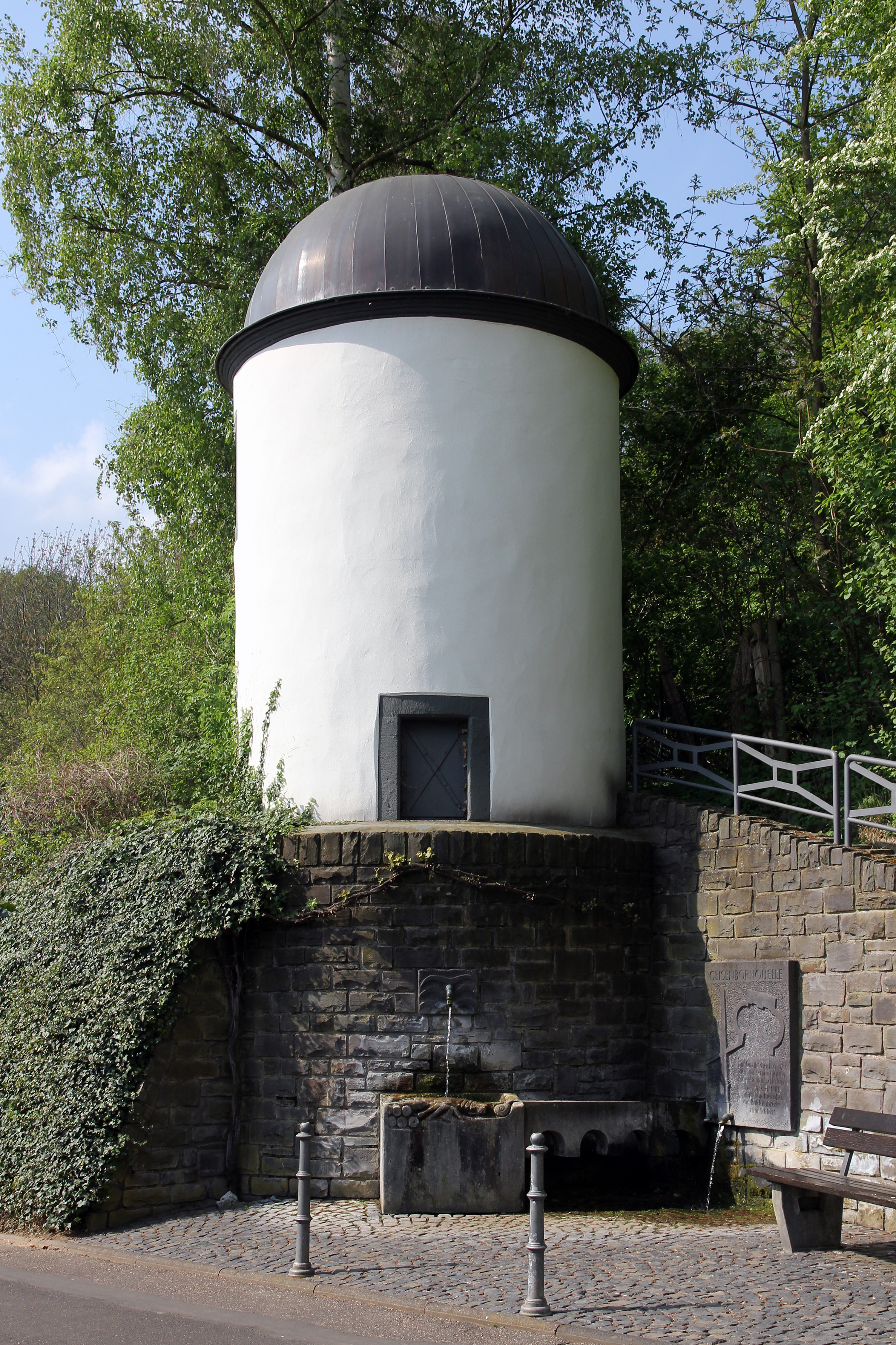 Schönbornbrünnchen in Koblenz